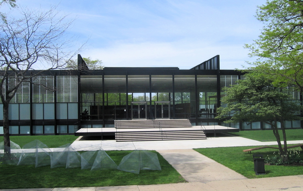 Crown Hall at the Illinois Institute of Technology, Chicago, Illinois. Designed by Ludwig Mies van der Rohe; completed 1956.